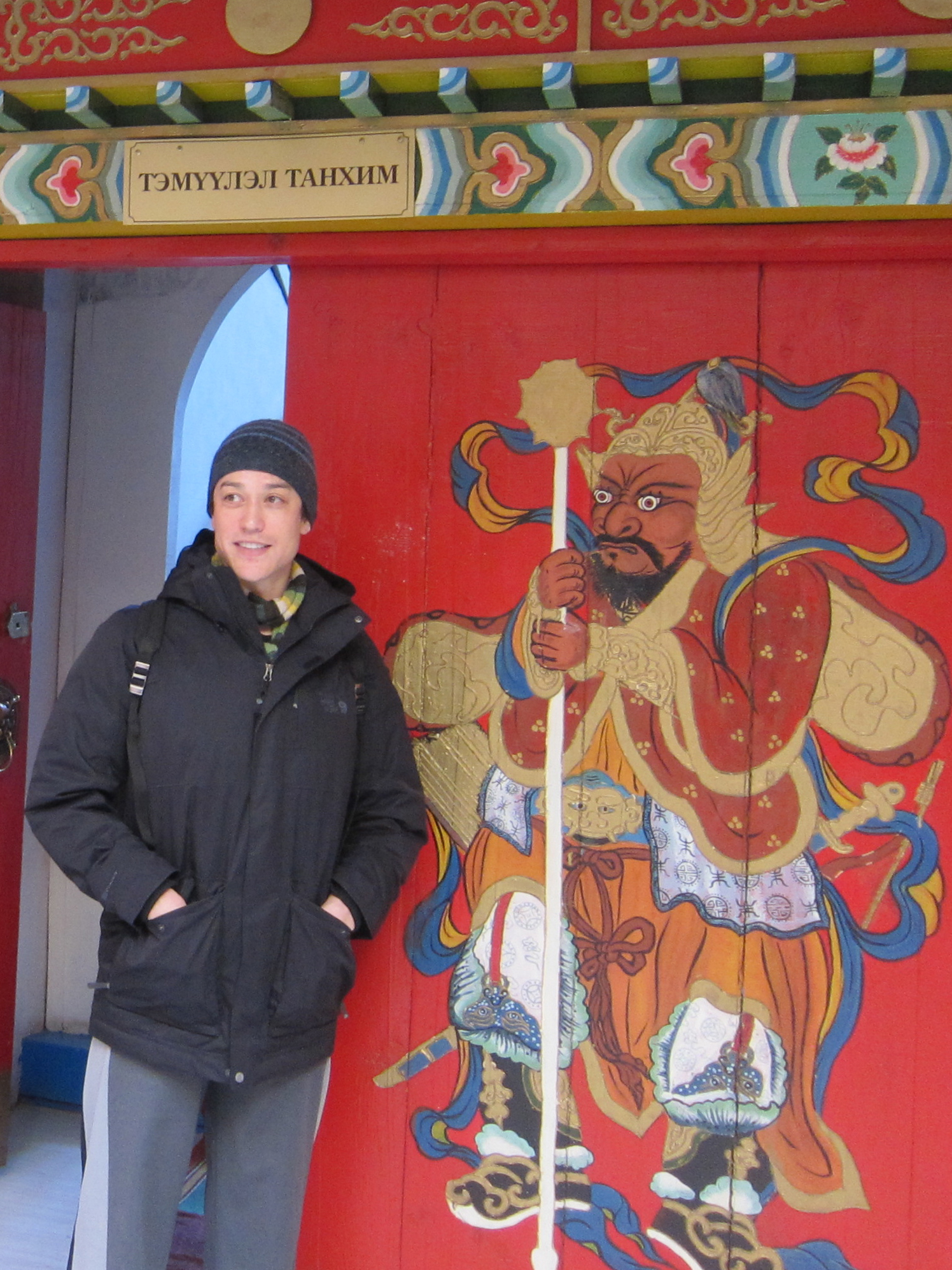 Dana Tai Soon Burgess during his company's tour to Ulaanbaatar, Mongolia